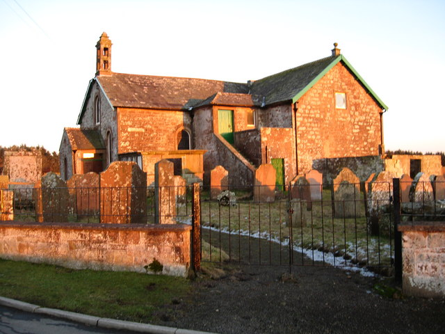 Kirkpatrick Fleming Kirk in Dumfriesshire. Other photographs on the site are taken from the opposite side of the church, I feel the front is much more interesting. Here caught,in all its splendour, by the late afternoon Winter sun, the latest in along line of churches which are reputed to have stood here for a thousand years. A wonderful example of the old Scottish Presbyterian Kirk in the style of post reformation.